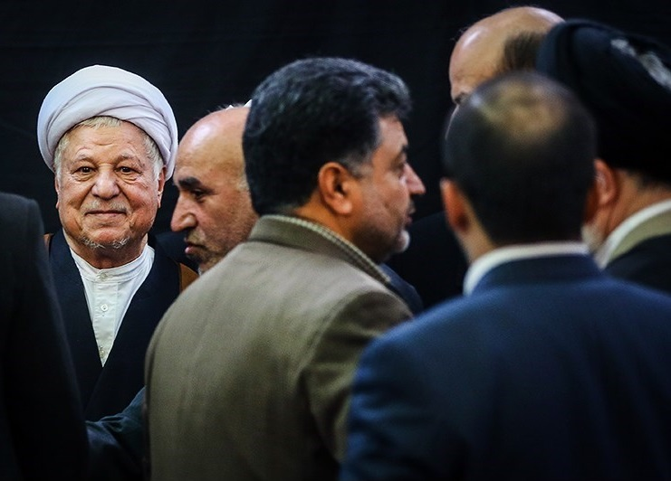 Akbar Hashemi Rafsanjani